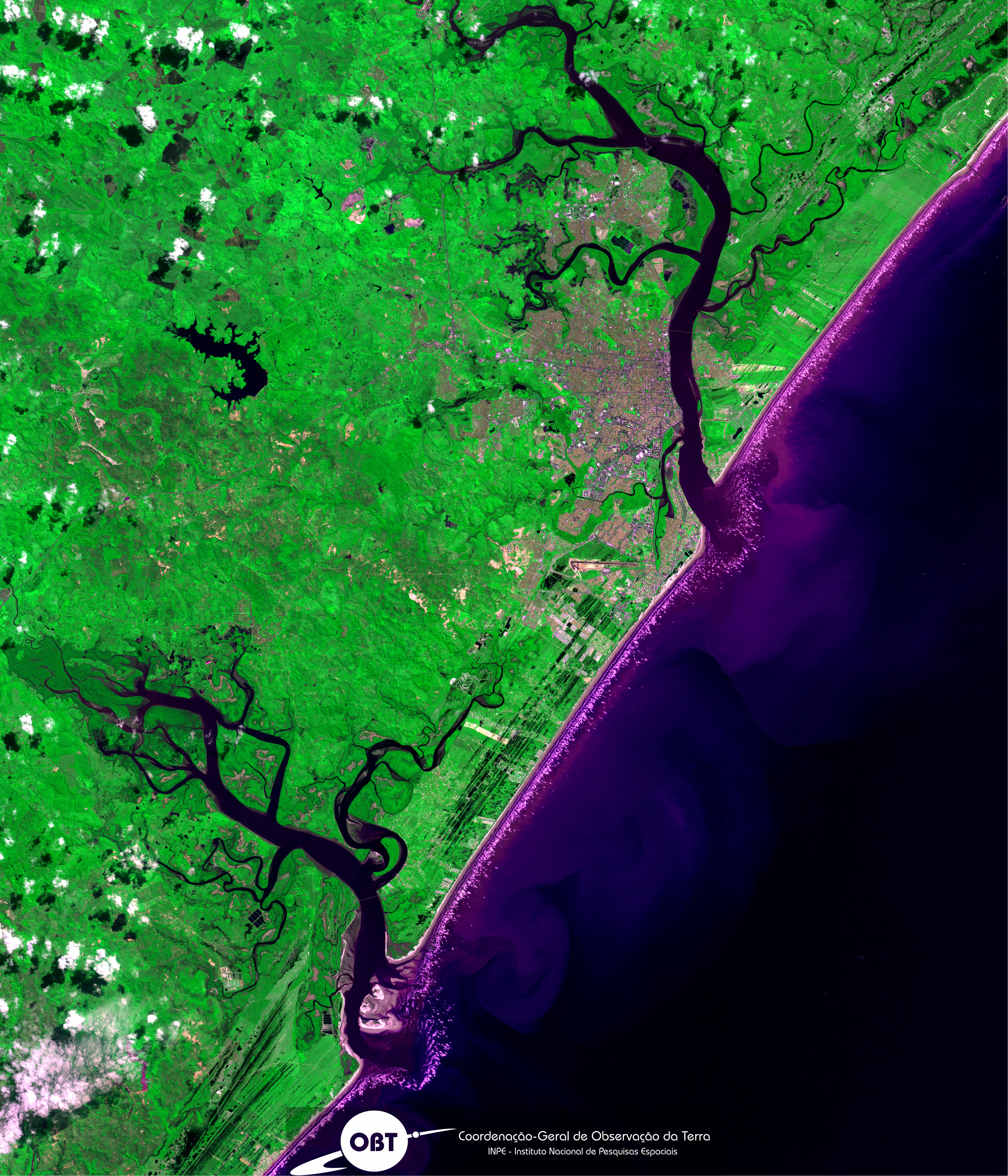 Satélite / Satellite: CBERS-4 Sensor: PAN 10m Data / Date: 31-07-2016 / 07-31-2016 Bandas / Bands: R3-G4-B2 Onde / Where: Aracajú, Capital Sergipe / Aracajú, Capital City of Sergipe Cena / Scene: CBERS-4 148/112 Acesso à imagem / Image access (TIFF - 61 Mb)